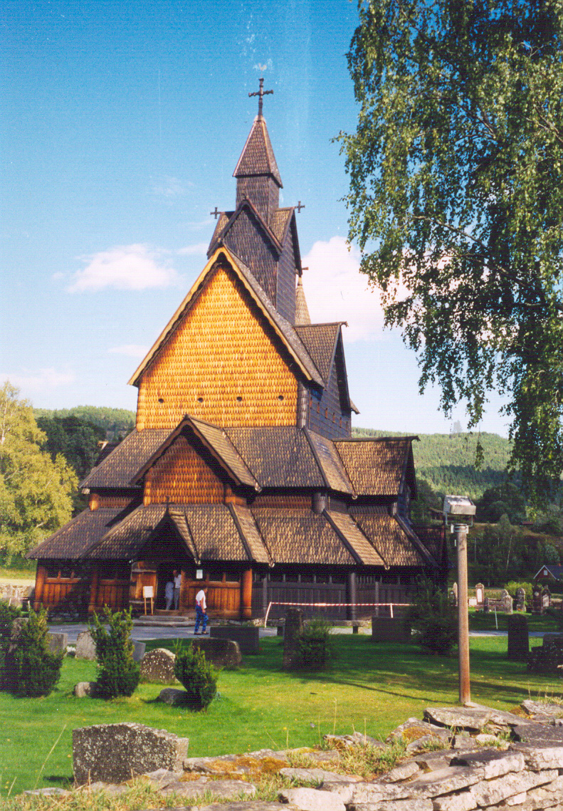 Heddal Stave Church, Telemark, Norway